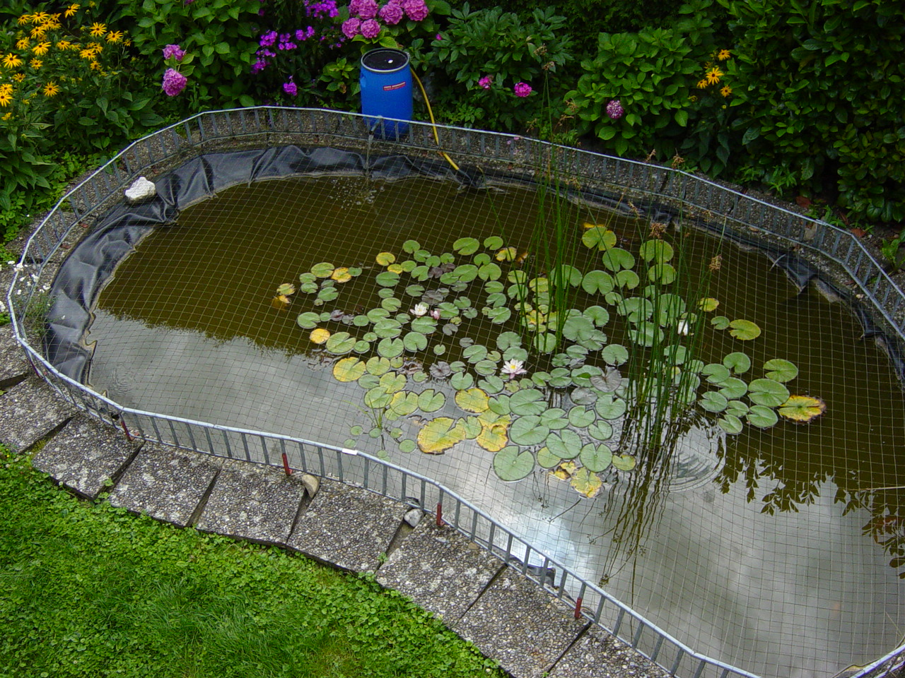 Photo of Granny's garden.